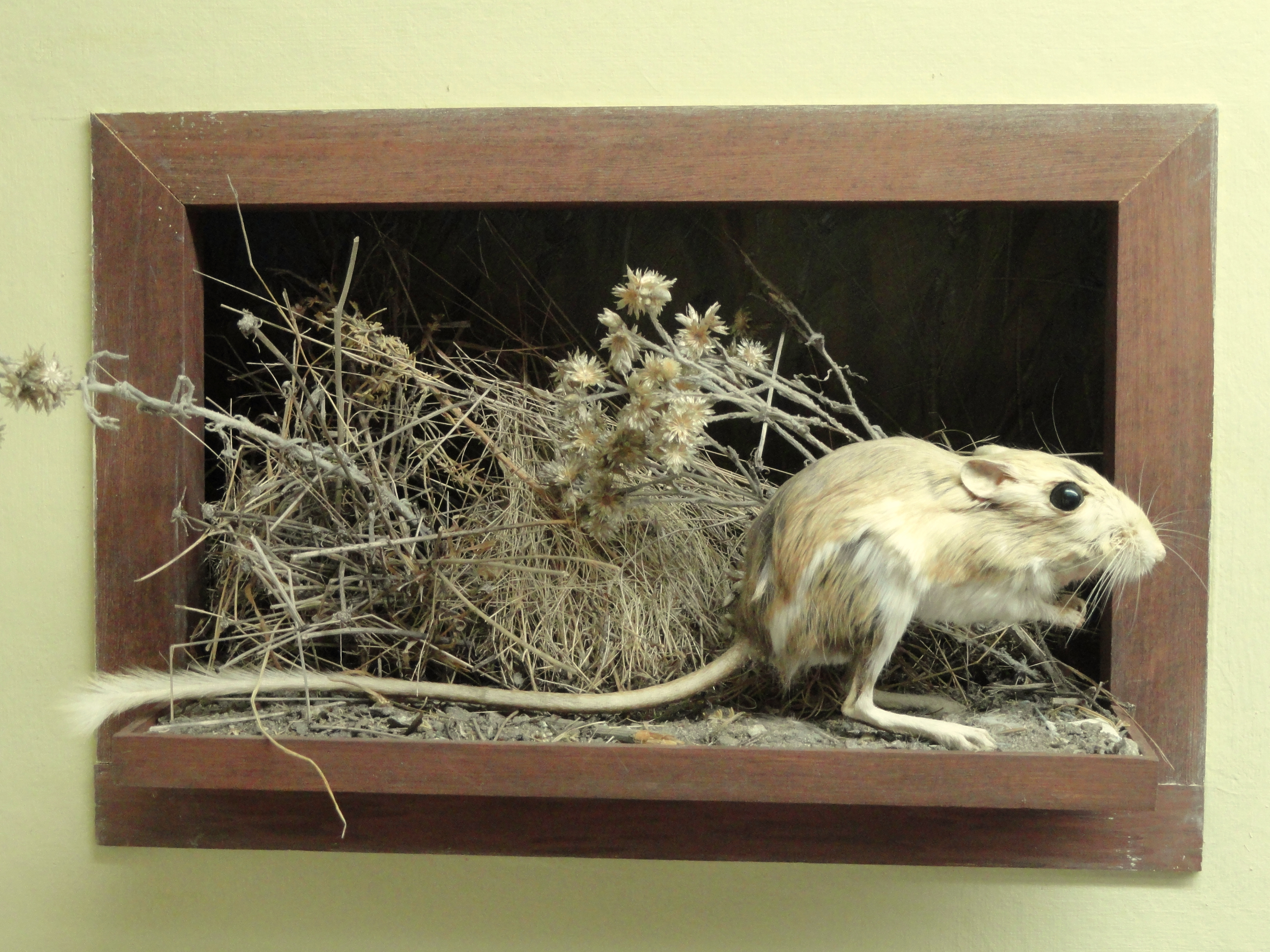 Exhibit in the Pacific Grove Museum of Natural History, Pacific Grove, California, USA. Photography was permitted without restriction in the museum.